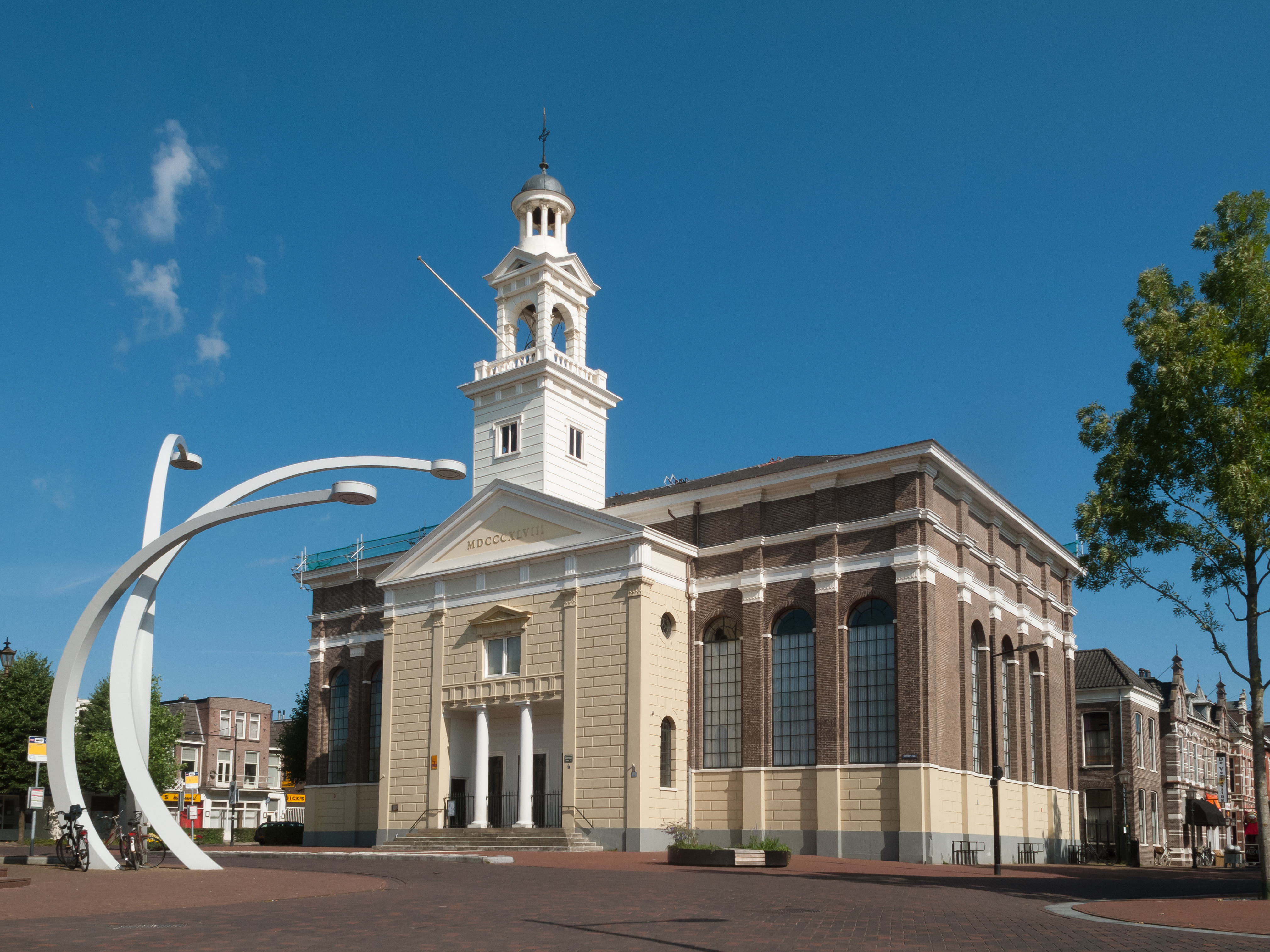 Assen, church: de Jozefkerk